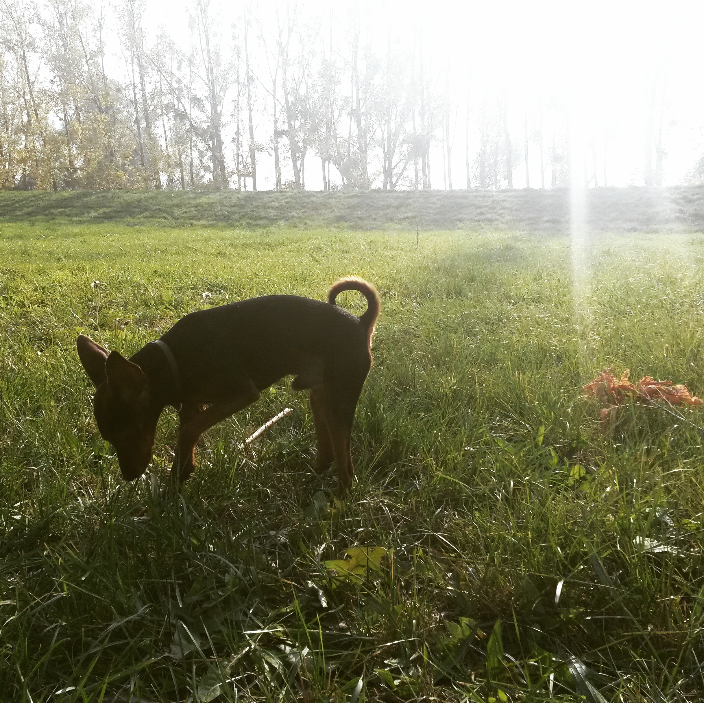 Miniature Pinscher puppy